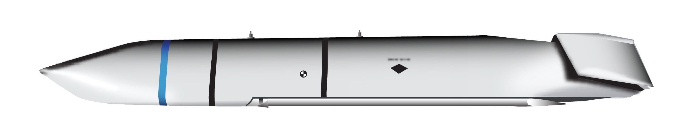 AGM-158 Joint Air-to-Surface Standoff Missile (JASSM)